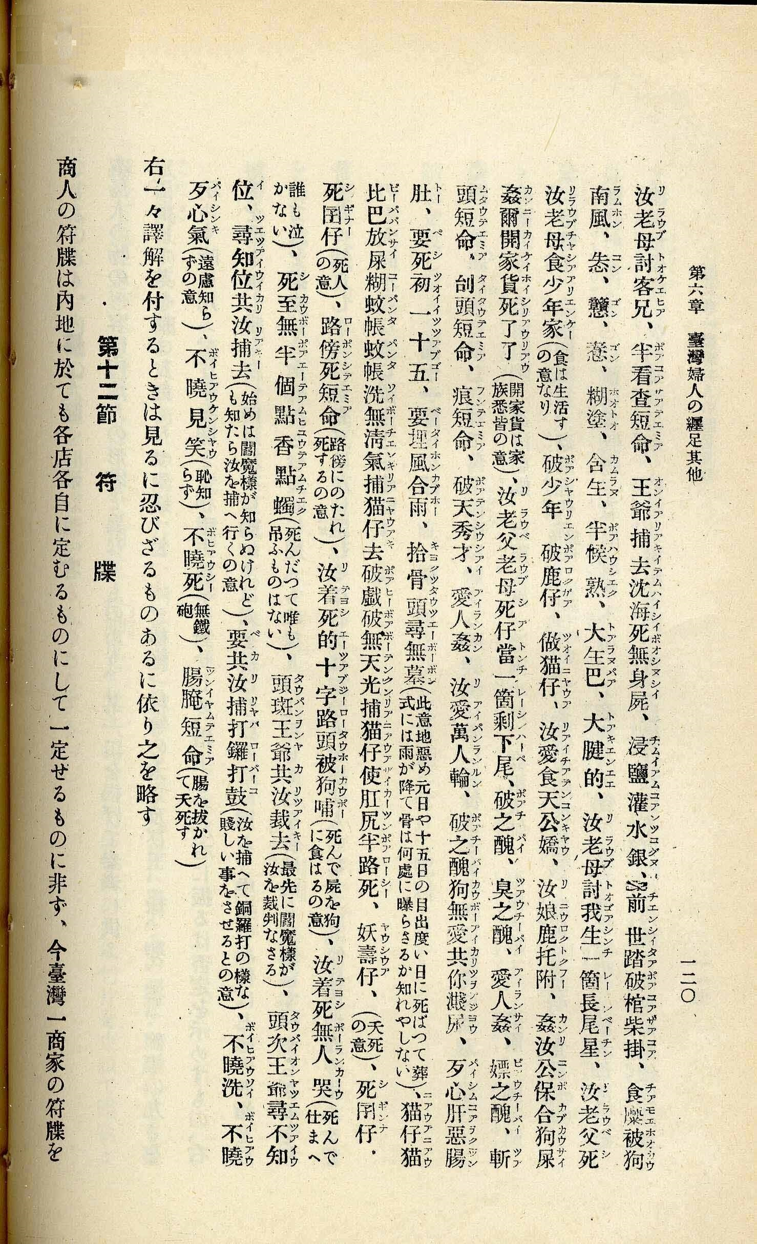 Profanities (lah-sap-ōe) of Taiwanese Hokkien Bân-lâm-gú: Bân-lâm-gú Tâi-oân Hong-giân ê lah-sap-ōe